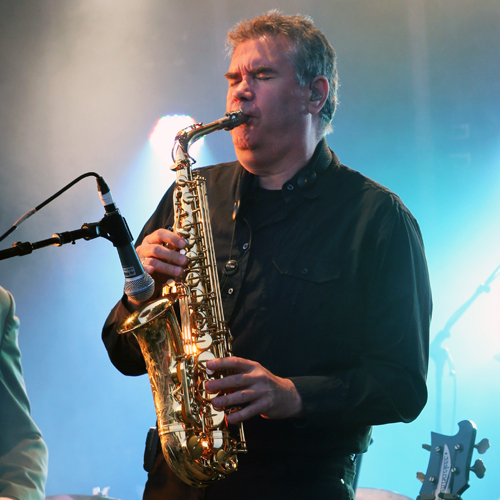 Saxophonist Mike Stevens performing with 10cc on 25 May 2013